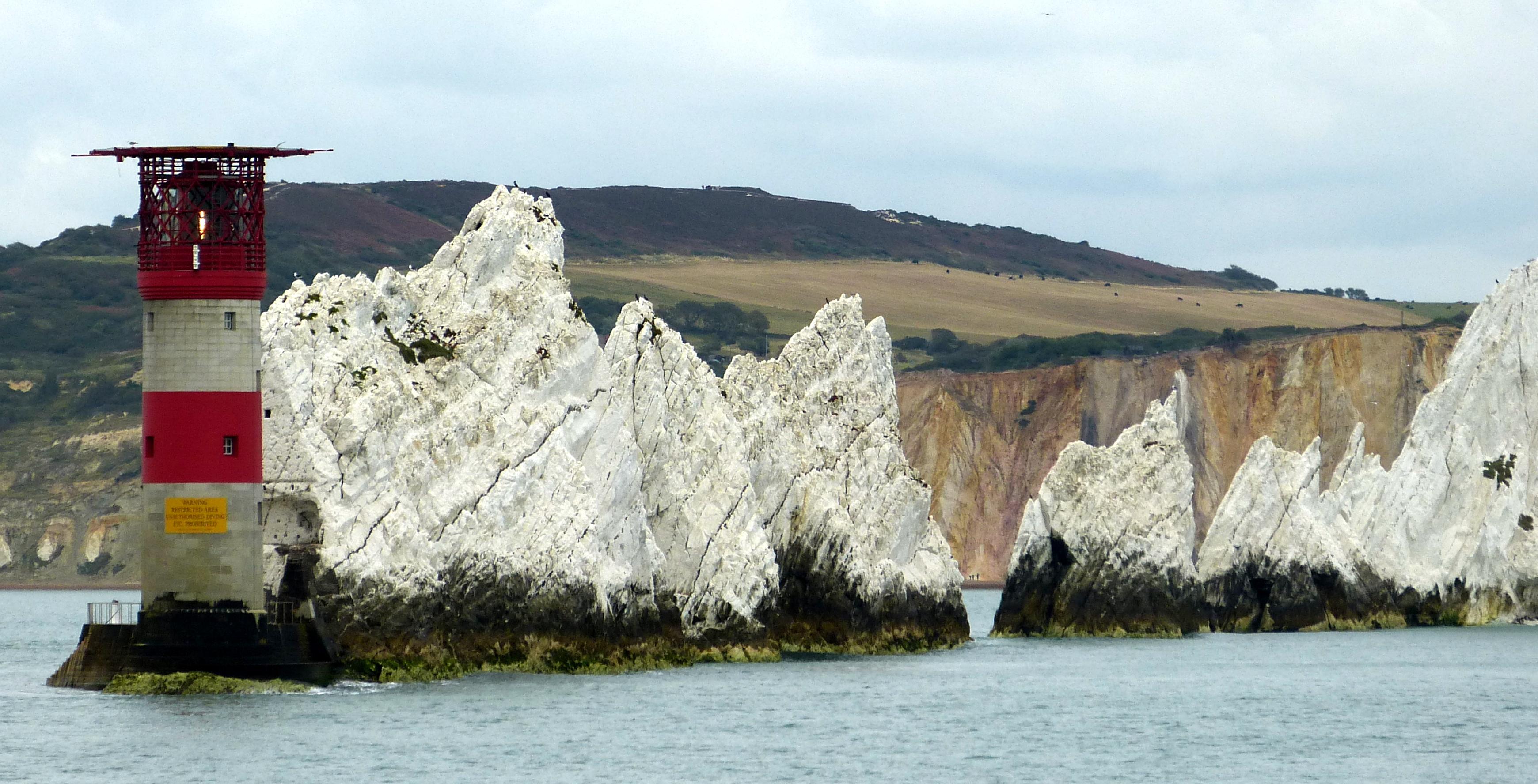 The Needles Lighthouse. Isle of Wight..